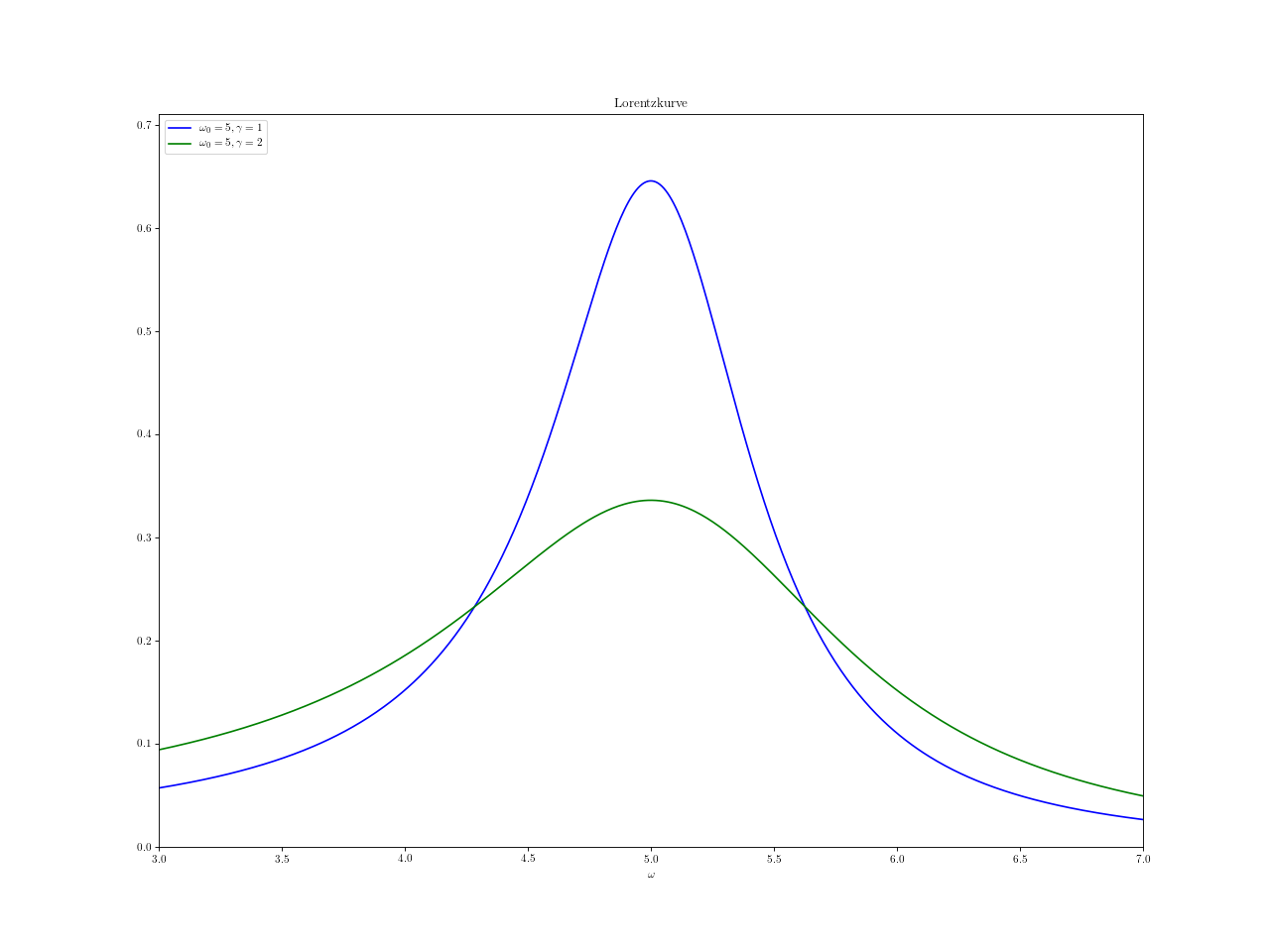 normalised Breit-Wigner distributions or Lorentz curves with a maximum at omega_0 = 5 and two widths gamma = 1 (blue) and gamma = 2 (green)